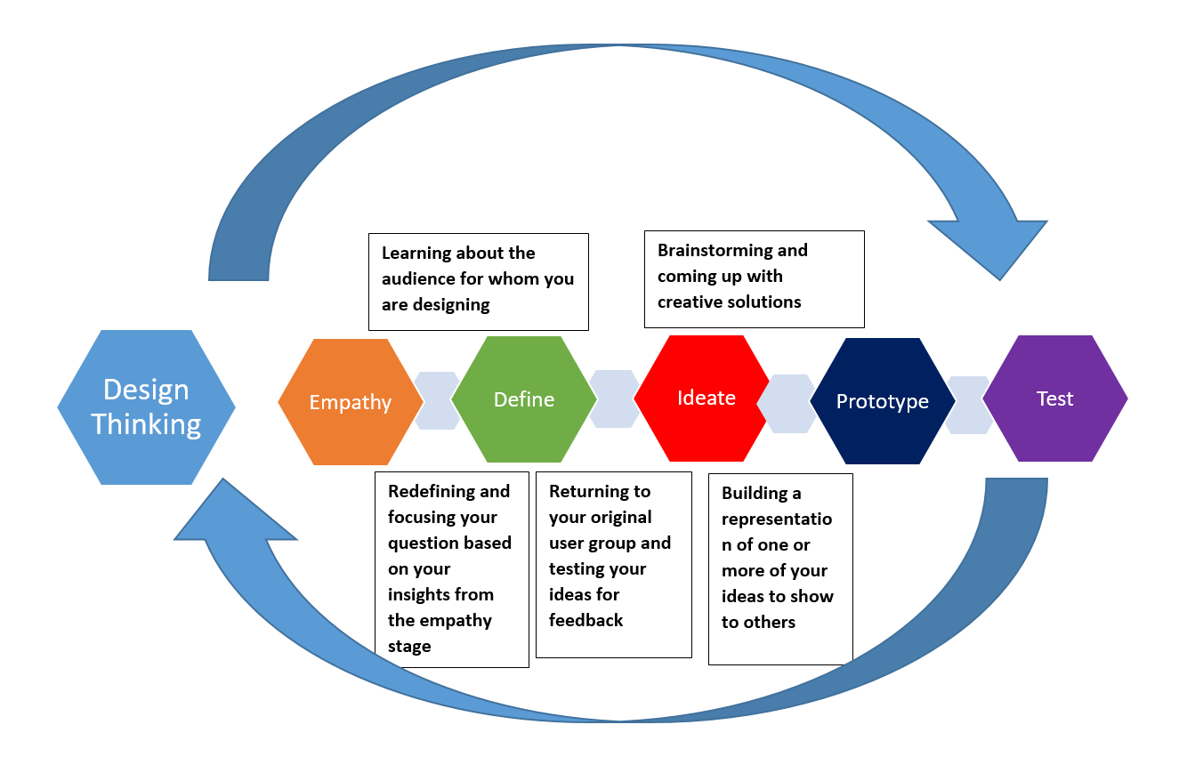 Design thinking requires the learner to work within a specific scaffold process to solve a design challenge